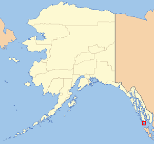 Locator Map of Alaska, United States (N.B. Canada and Russia borders are approximate, from National Atlas)